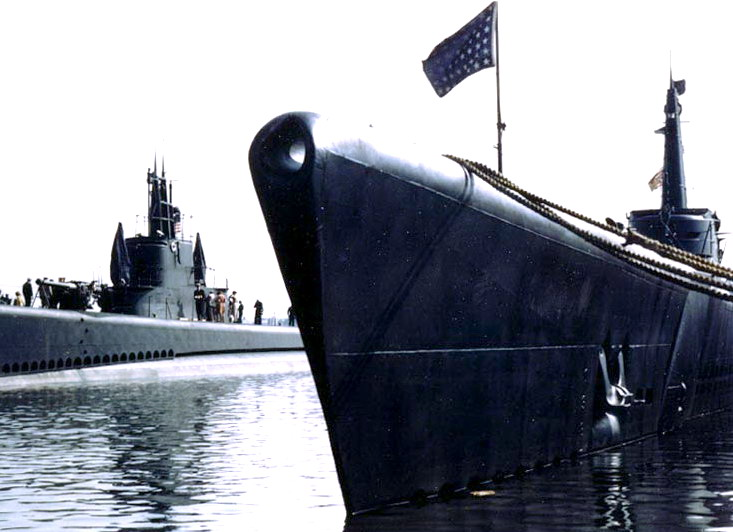 The USS Dace (SS-247) at left. At the New London submarine base, Groton, Connecticut, on 23 July 1943, the day she was placed in commission. Photographed by Commander Edward Steichen, USNR.